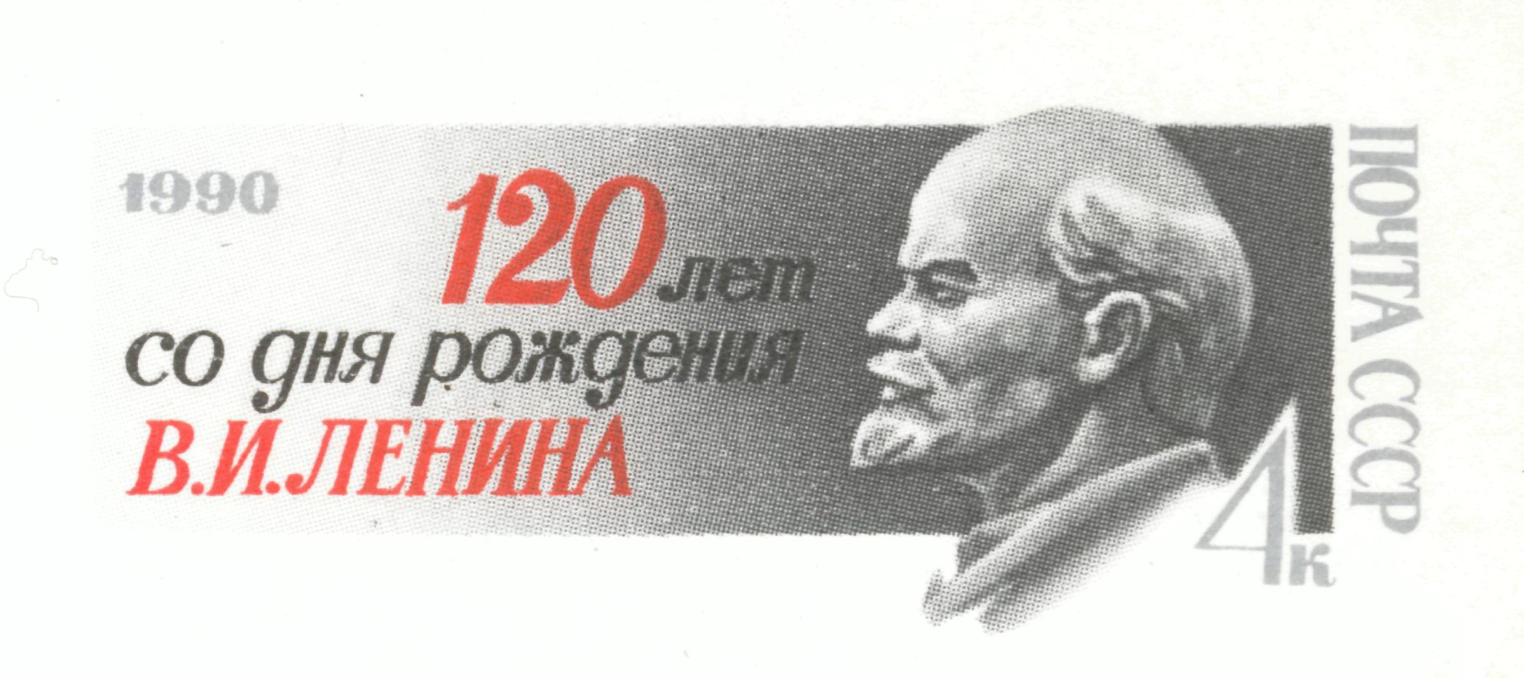 Soviet preprinted (original) stamp of 4 kopecks, 1990. Stamp exhibition 'Leniniana 90'. Detail of a postcard of the Soviet Union (postal stationery).